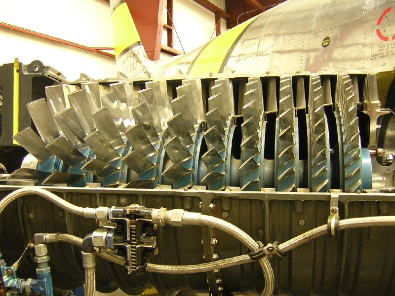 Compressor of Westinghouse J34, Gas Turbine